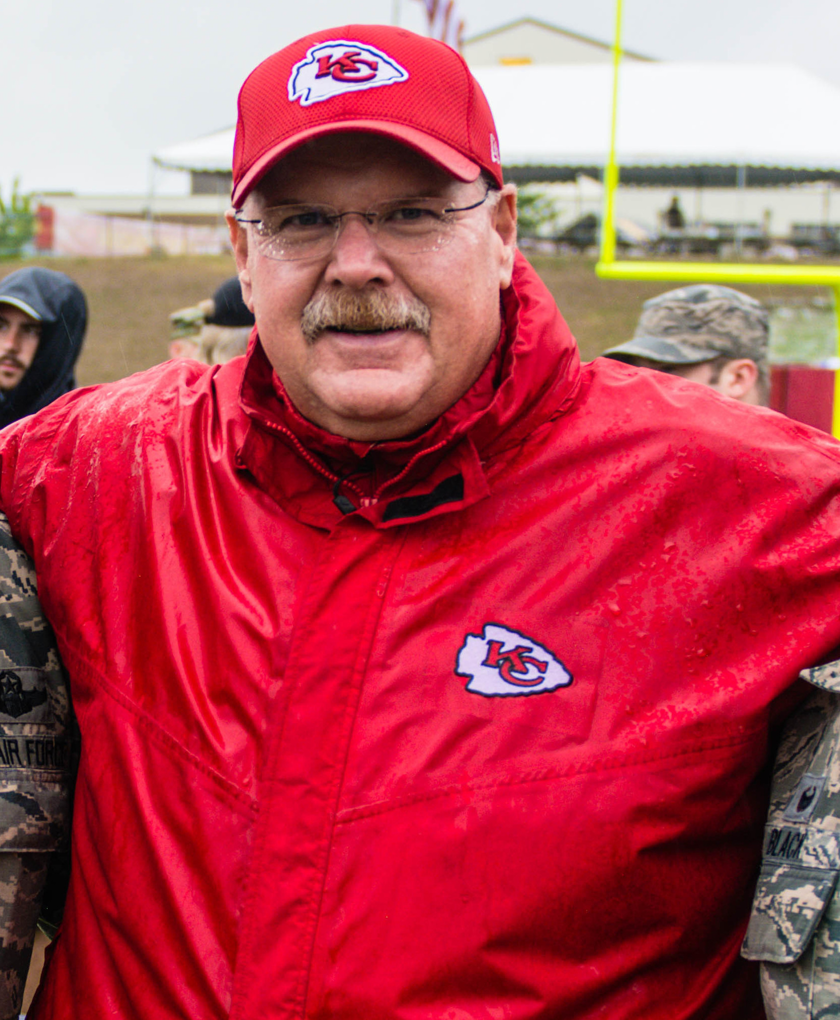 Andy Reid, head coach of the Kansas City Chiefs football team, poses for a photo with leadership of the 139th Airlift Wing, Missouri Air National Guard, at the Chief’s training camp in St. Joseph, Mo., Aug. 14, 2018. The Chiefs hosted a military appreciation day on their final day of training. (U.S. Air National Guard photo by Master Sgt. Michael Crane)